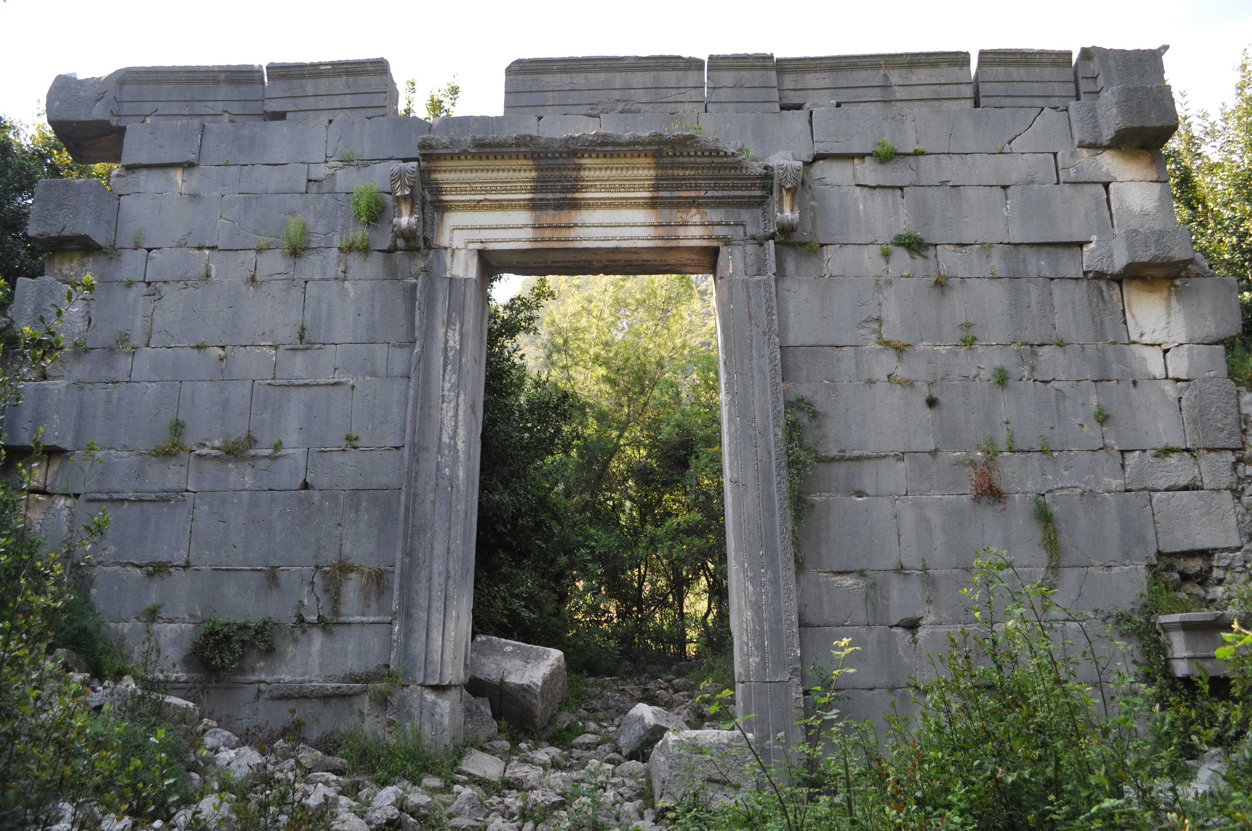 Olympos: Roman temple 2nd century